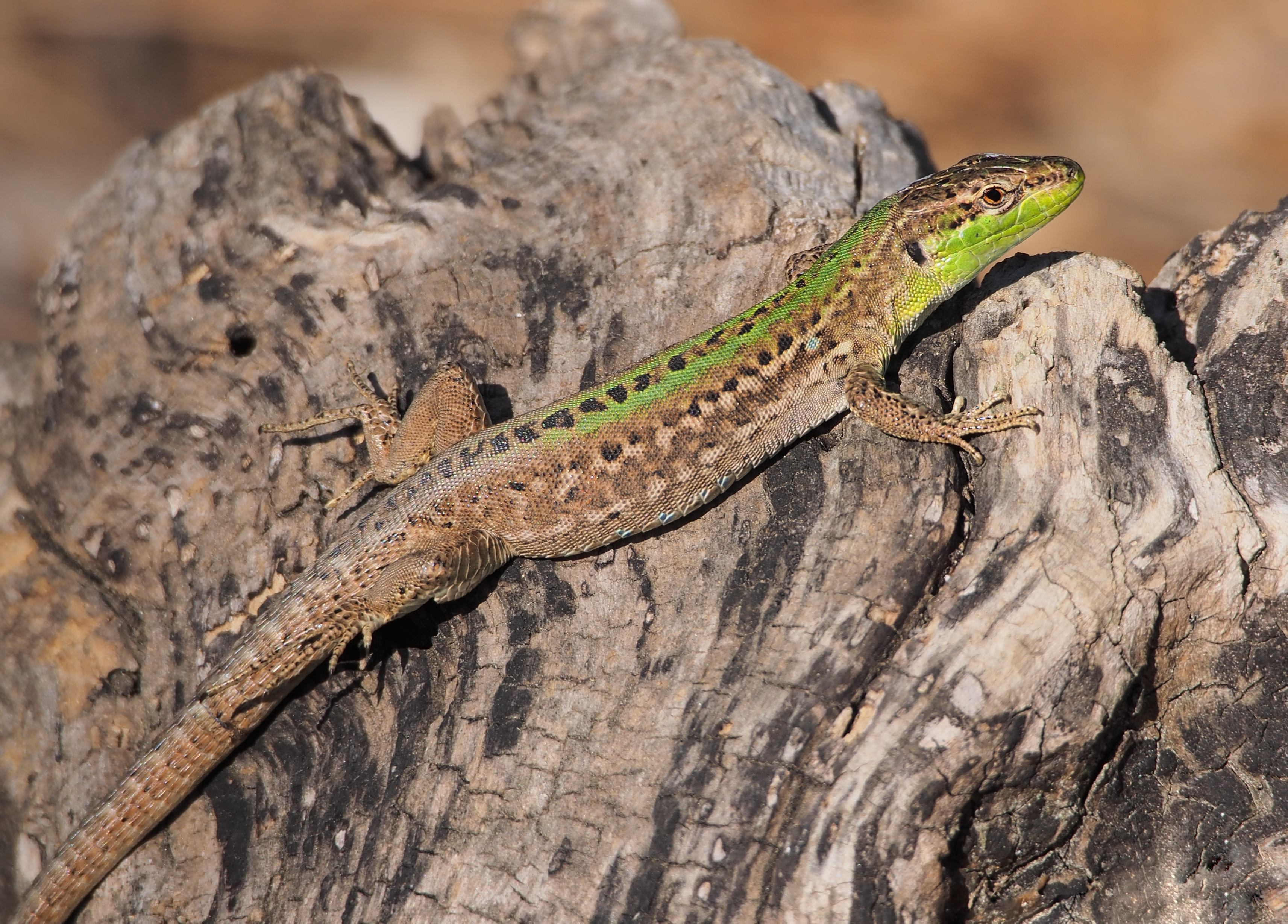 Podarcis sicula (Italian wall lizard) taking morning sunbath. Istrian coast. Length without tail is around 10 cm. This photograph was taken with an Olympus E-P5